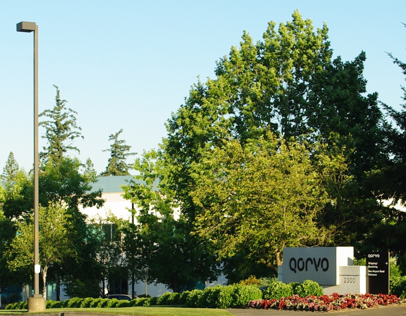 Qorvo headquarters in Hillsboro, Oregon